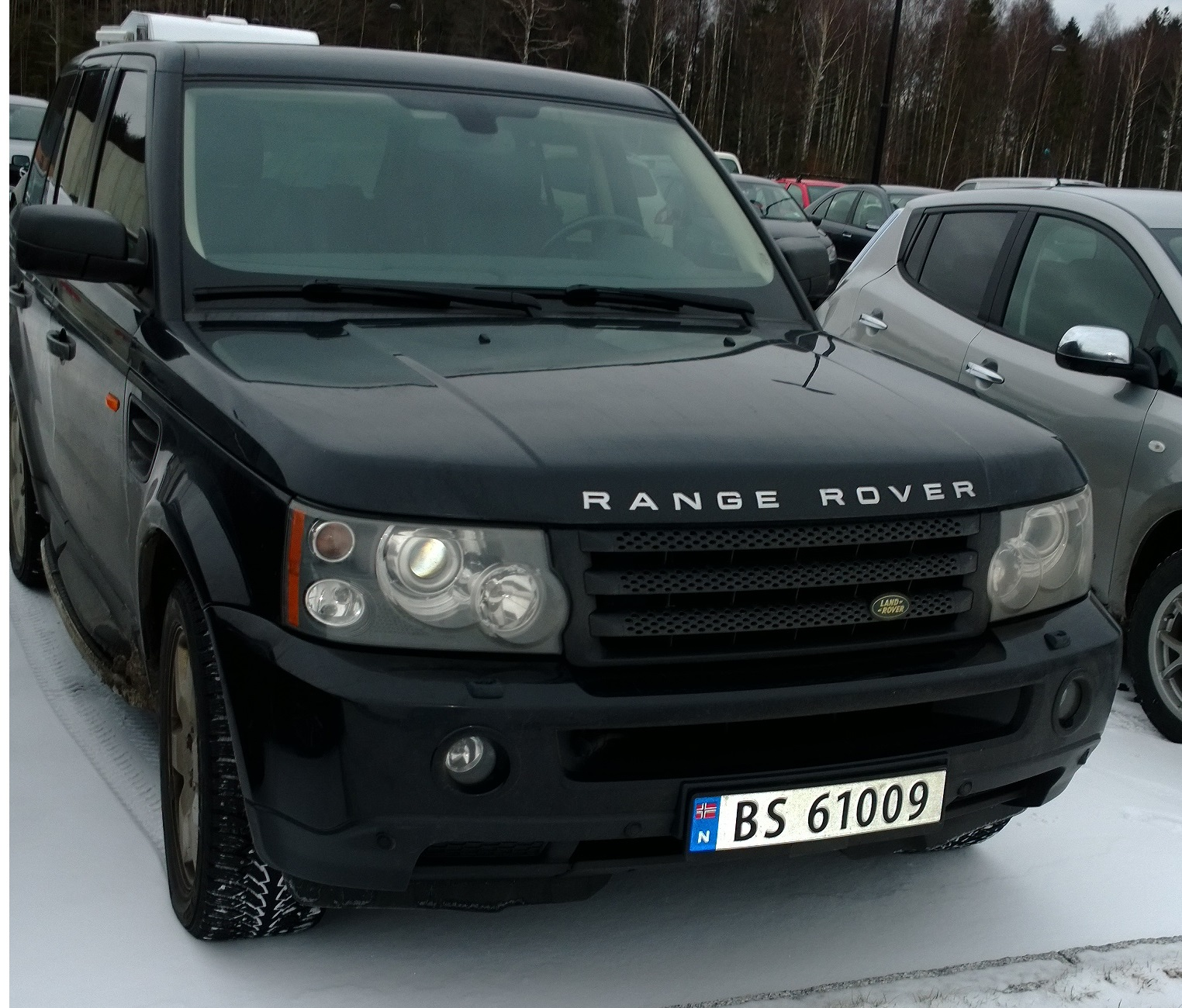 Bilskilt fra Bærum, for tiden med BS. Norges mest populære skilt, særlig på biler i øvre prisklasse.